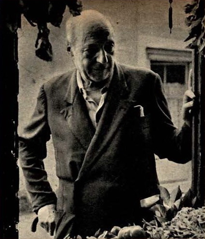 Italian poet and writer Umberto Saba